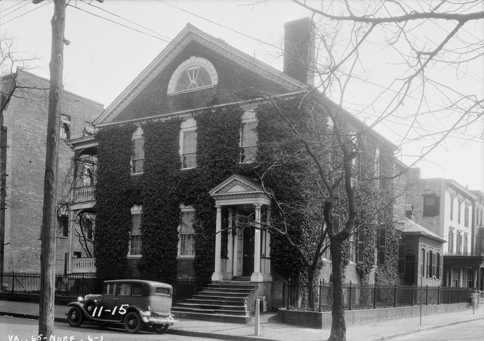 Photograph of the Whittle House (Purdy-Whittle House), 225 West Freemason Street, Norfolk, Virginia. Historic American Buildings Survey, Library of Congress, Washington, D.C.